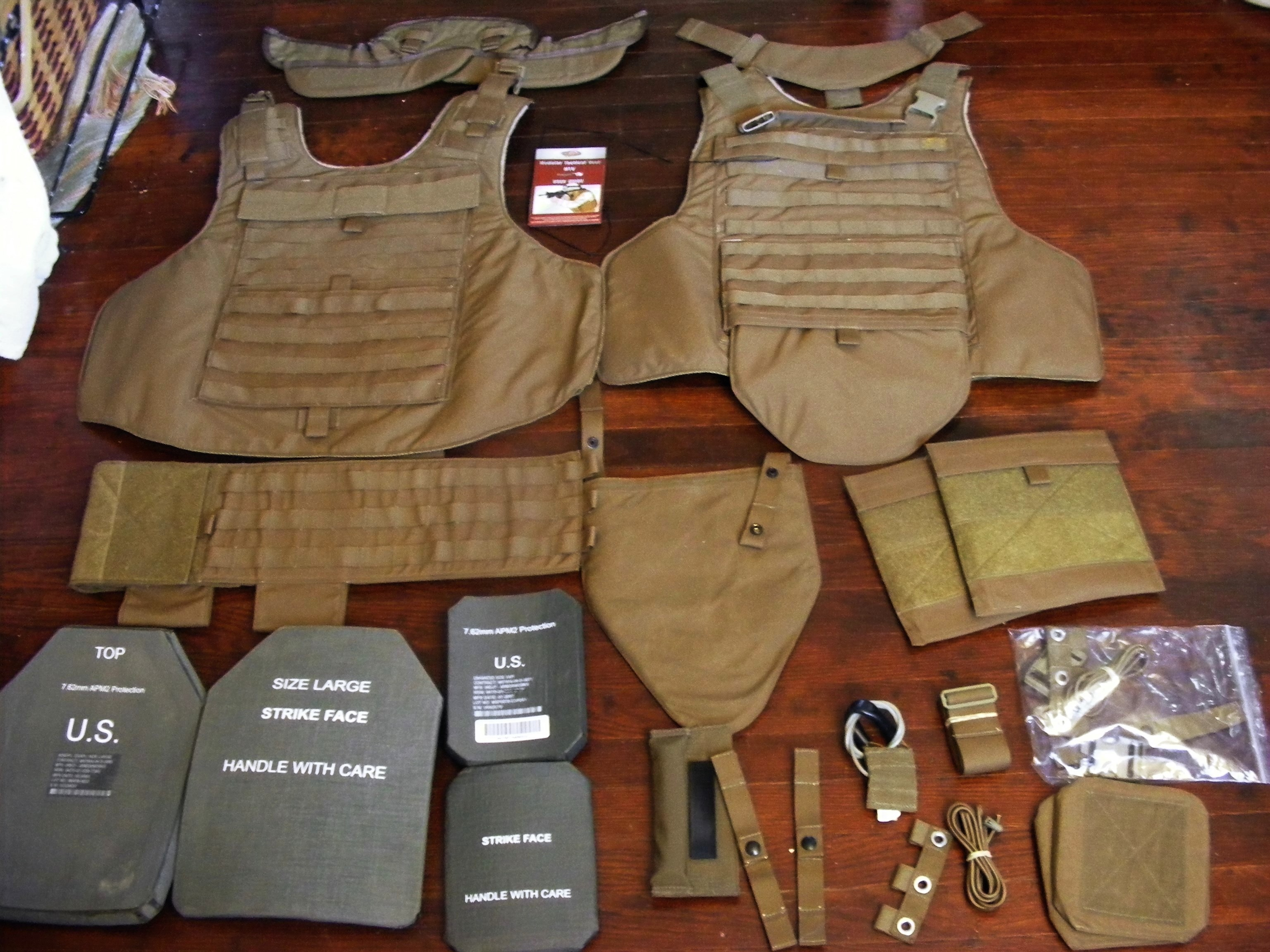 Modular Tactical Vest broken into its parts